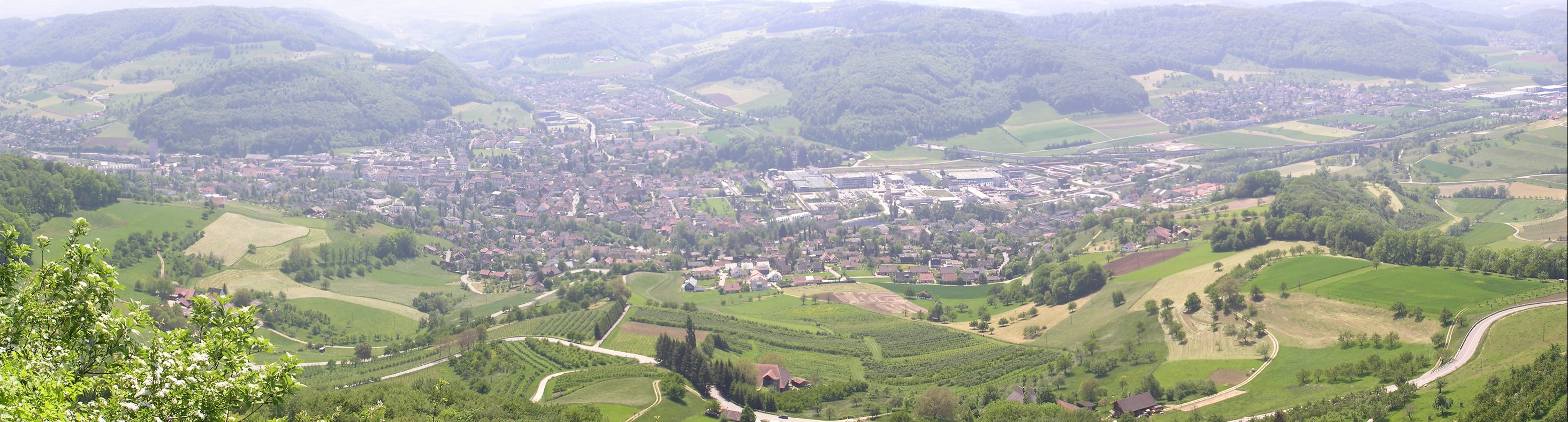 View over Sissach